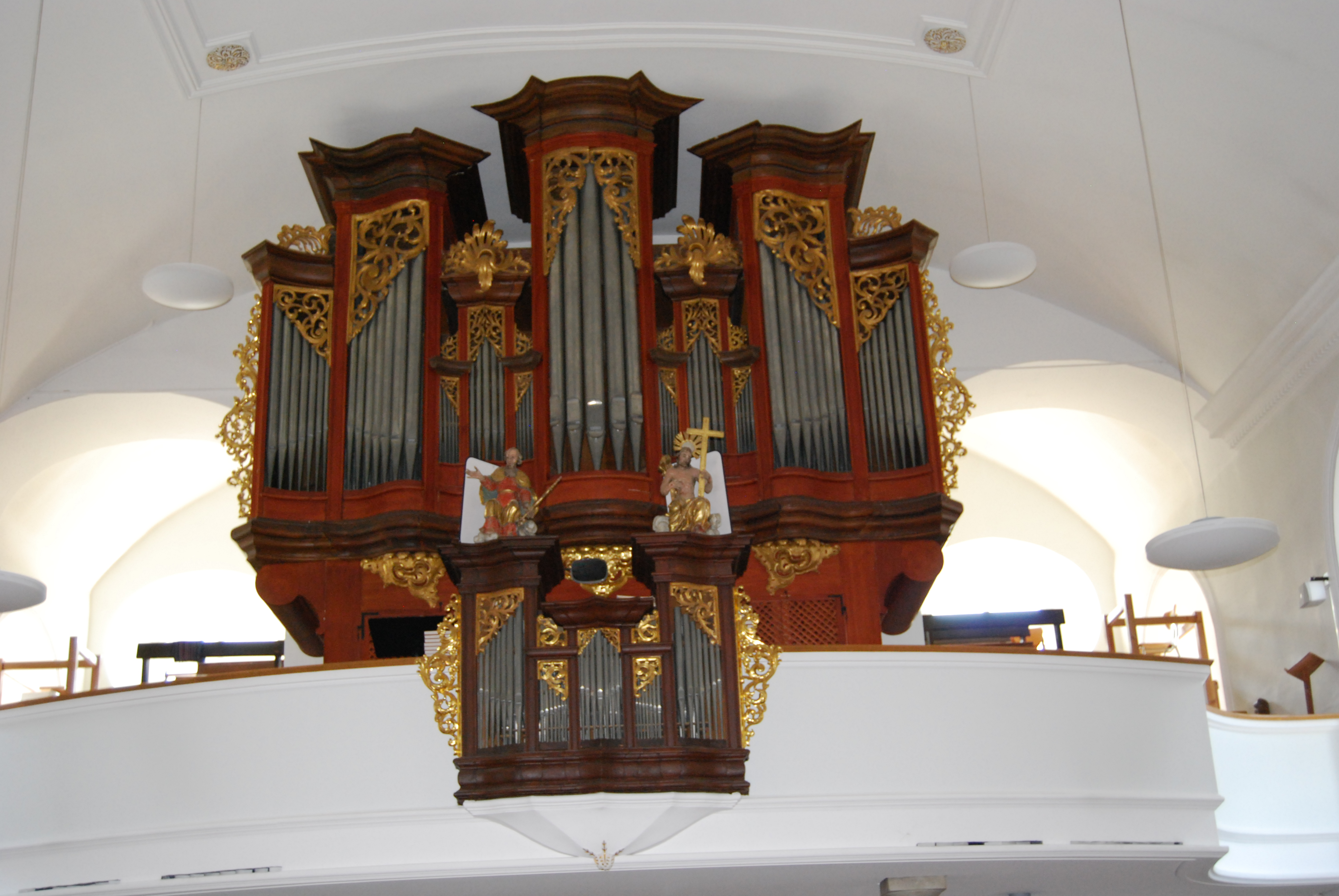 Church Saint-Jean Baptiste at Vuisternens-en-Ogoz, canton of Fribourg, Switzerland